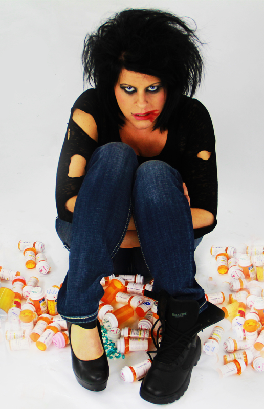 I am the author and copyright owner of this image.